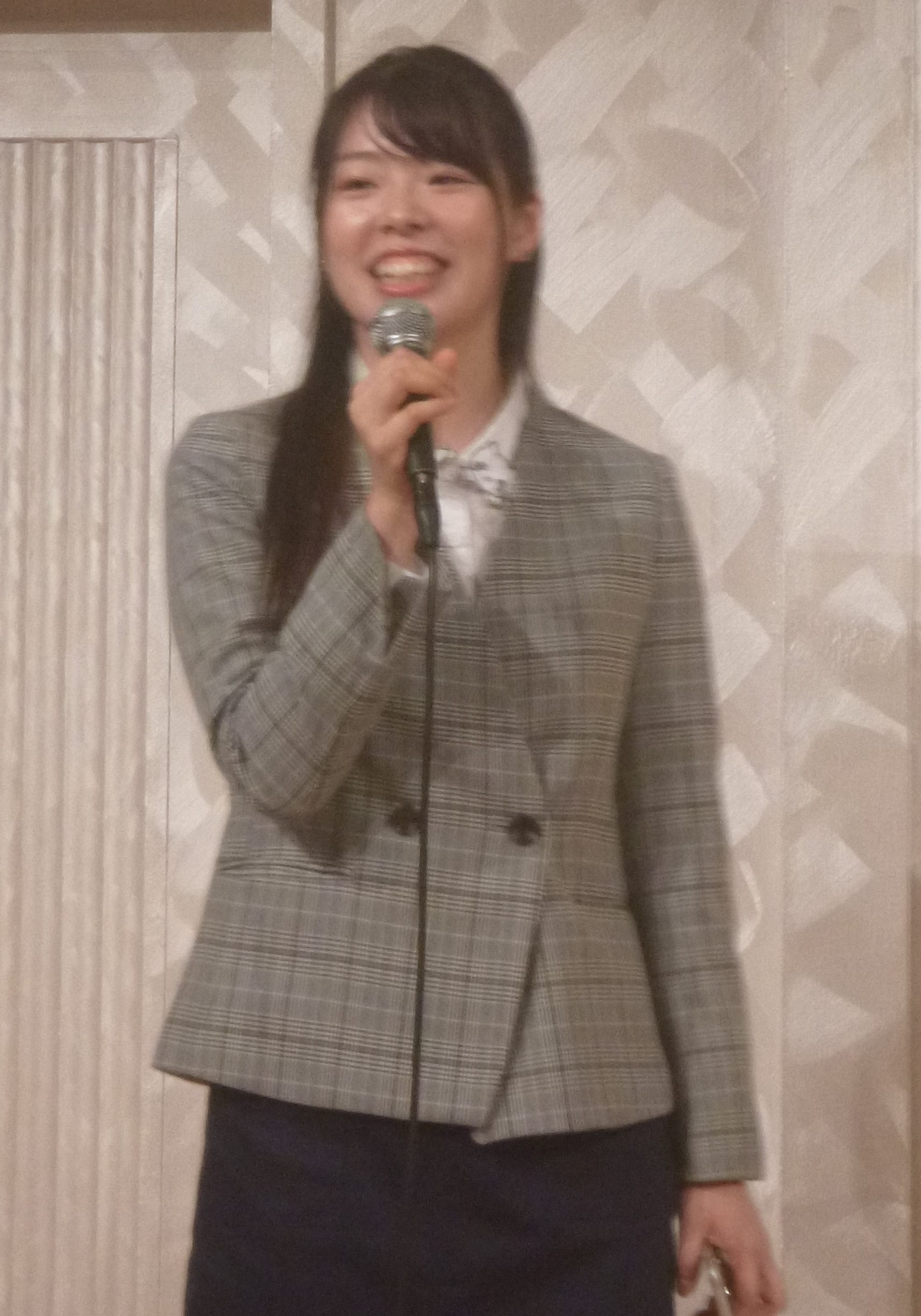 Japanese shogi player Emina Yamaguchi at the commentary for the 2nd match of 67th Ōza-sen final (in Osaka, Japan.)